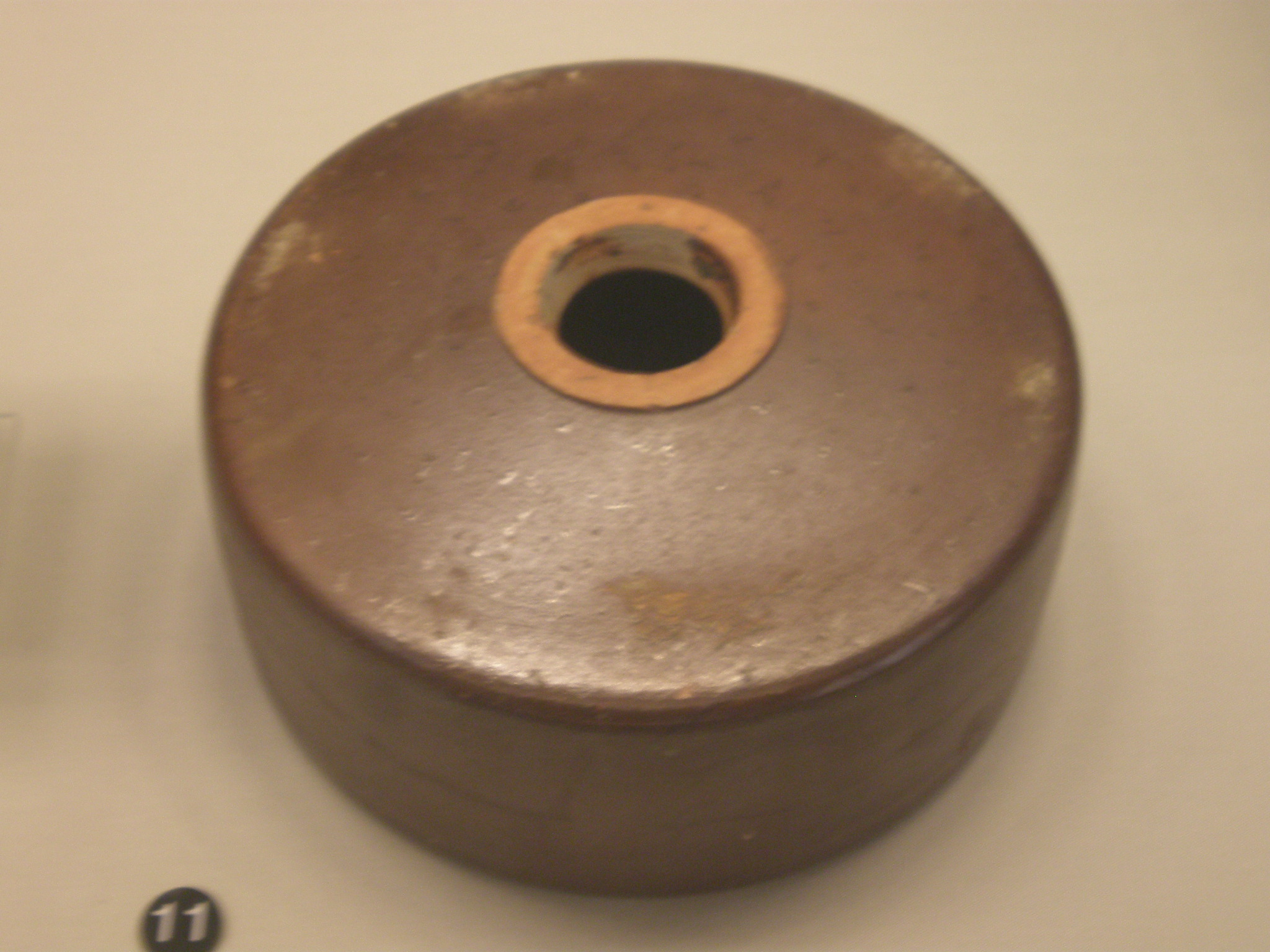 A World War II Japanese terracotta land mine on display at the Hong Kong Museum of Coastal Defence.